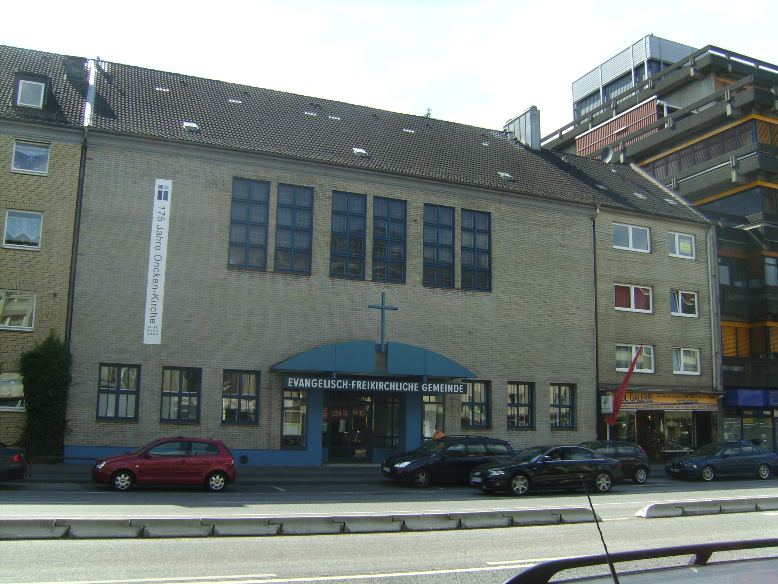 Evangelisch-Freikirchliche Gemeinde Hamburg I, Building of the first Baptist church of the continent of Europe, Grindelallee, built in 1951